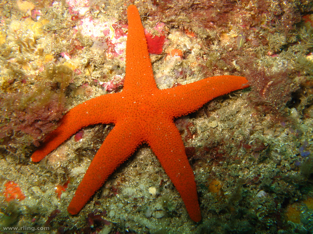 Many-pored Sea Star (Austrofromia polypora). Inscription Pt, Botany Bay, NSW